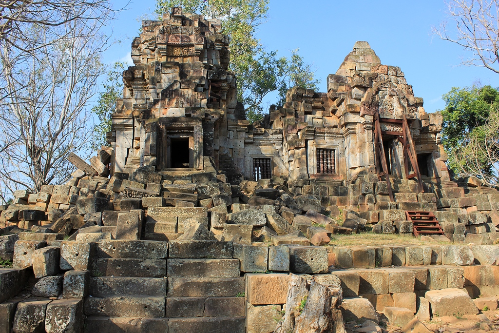 Ek Phnom3